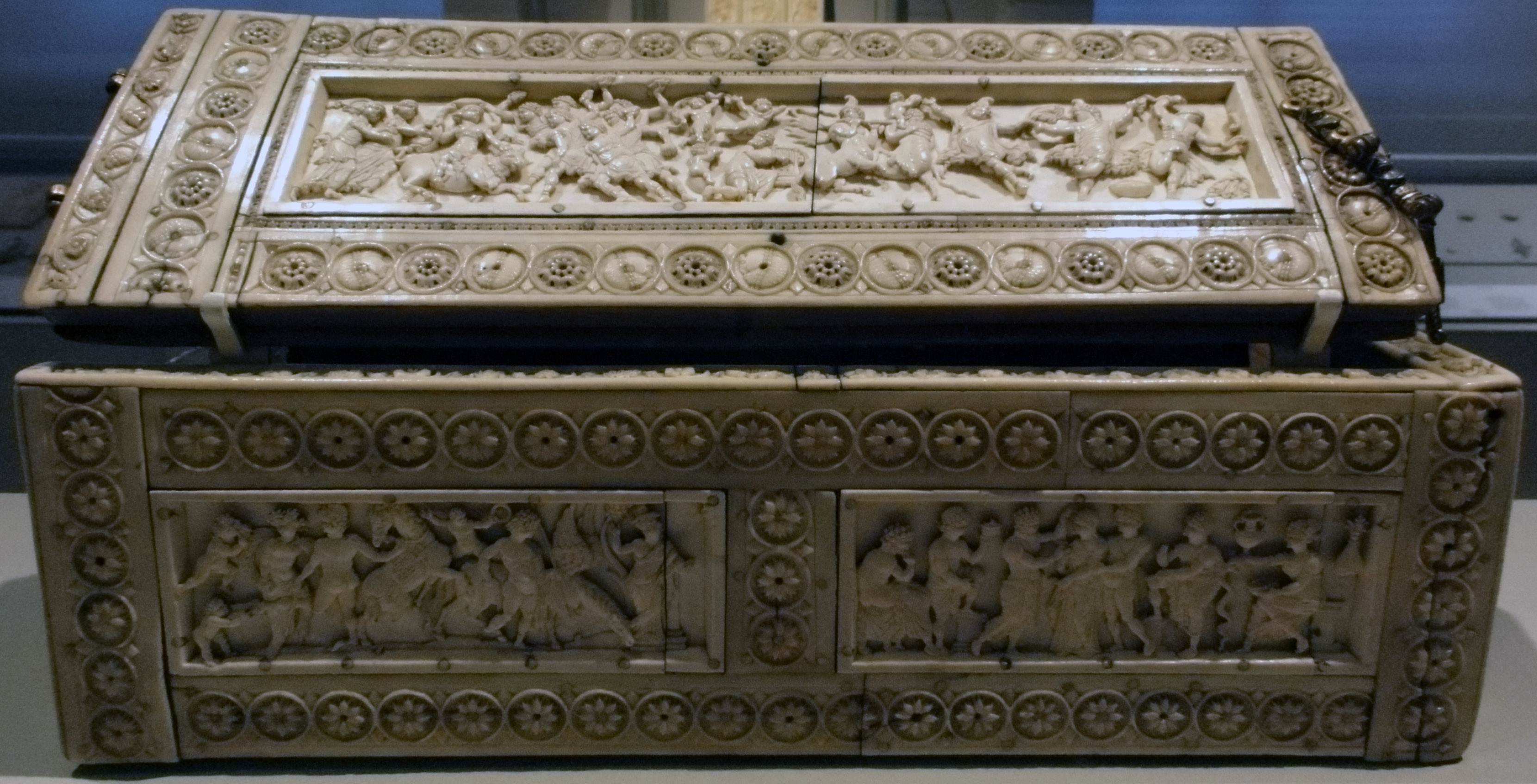 Front of Veroli casket dating from 900-1000AD, ref 216-1865.